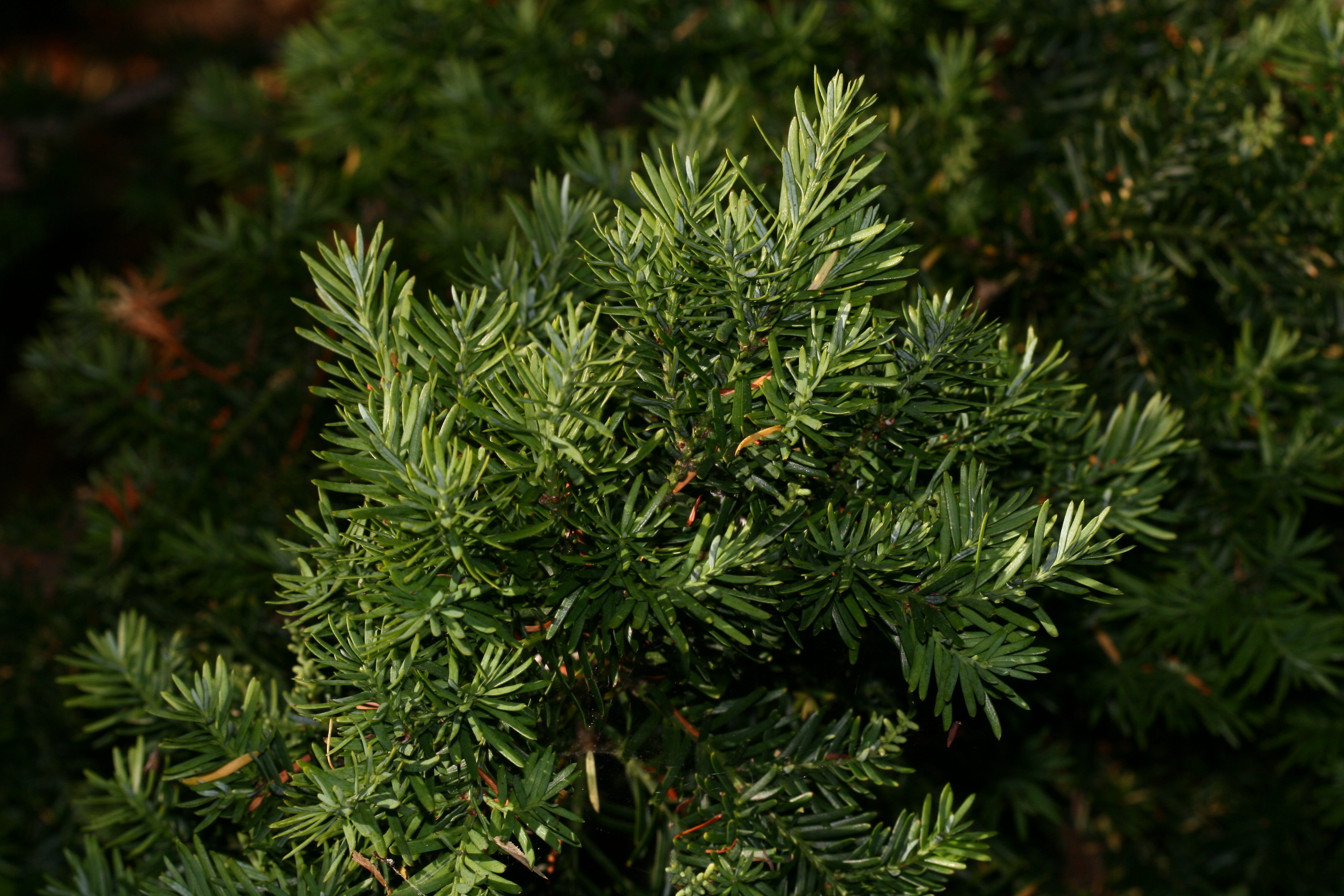 A conifer native to Chile. Royal Botanic Gardens, Edinburgh, Scotland